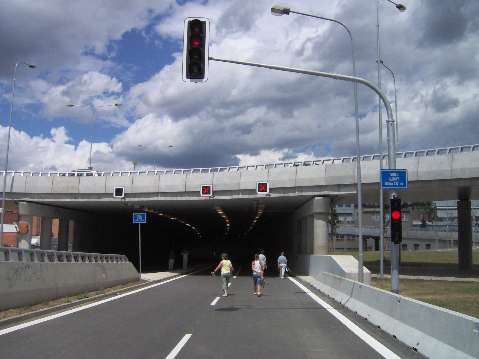 Hlinky Tunnel, Brno, Czech Republic